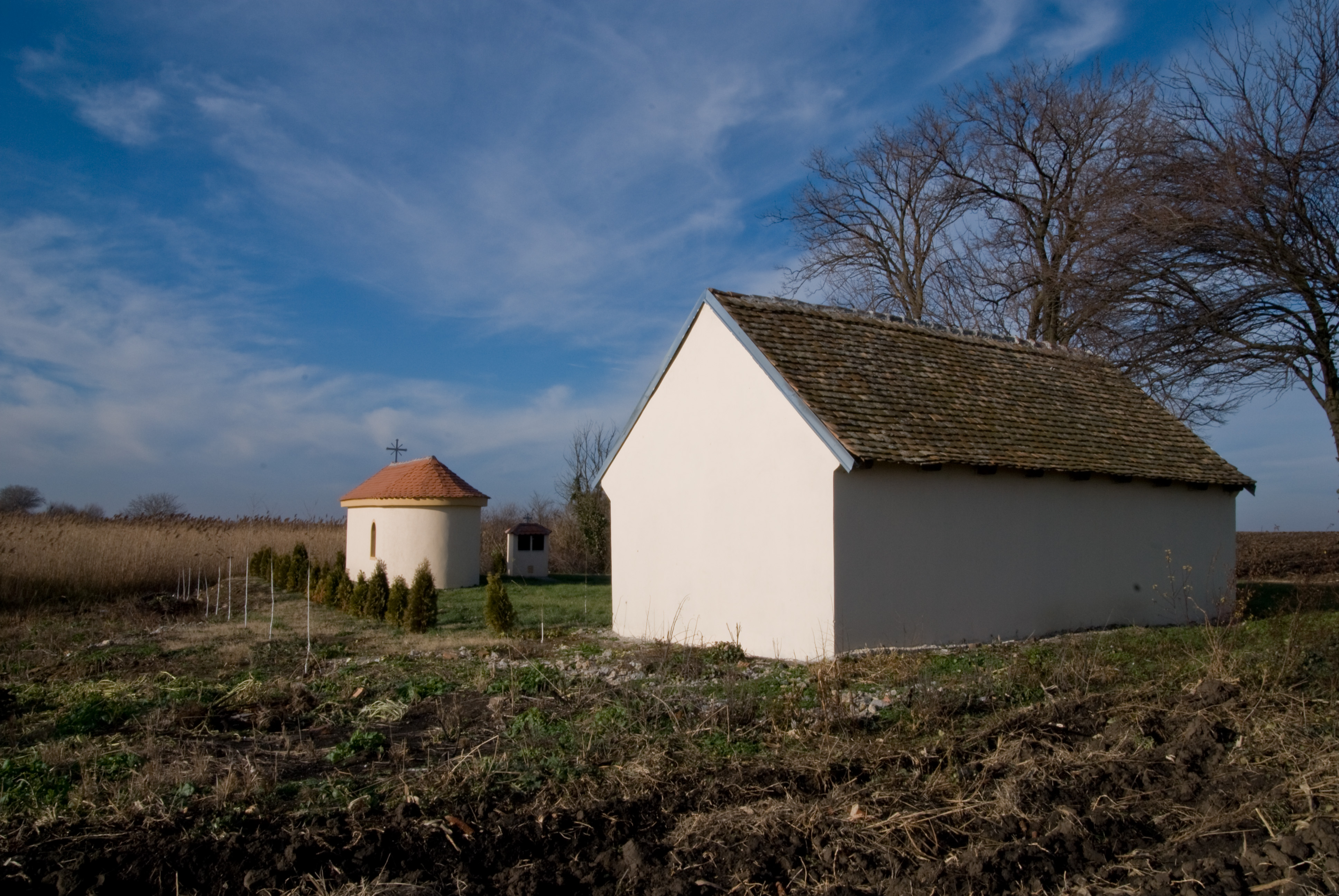 Vodica of Saint John in Crepaja, Kovačica